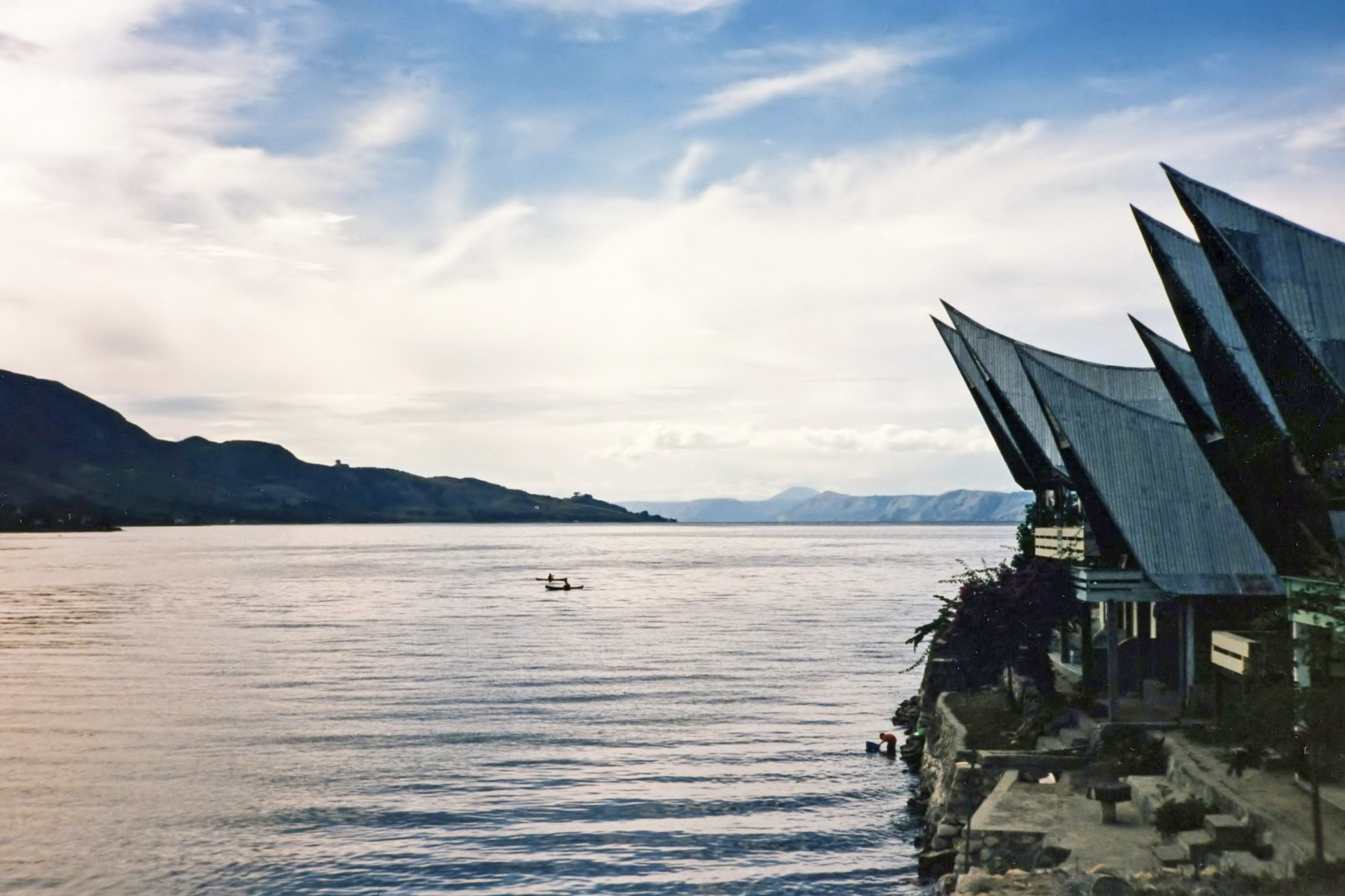 Lake Toba from Samosir Island, Sumatra, Indonesia